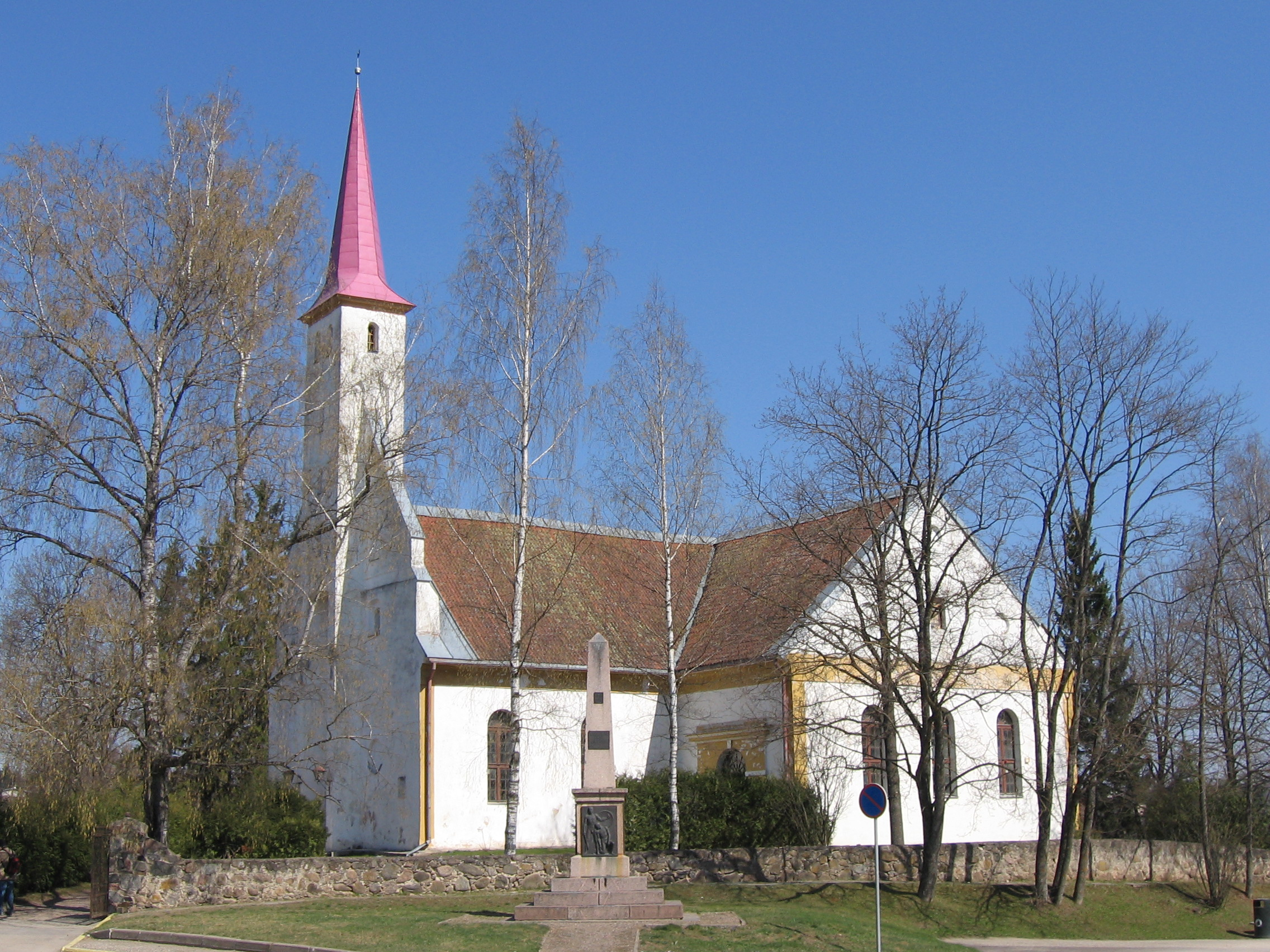 Põlva church